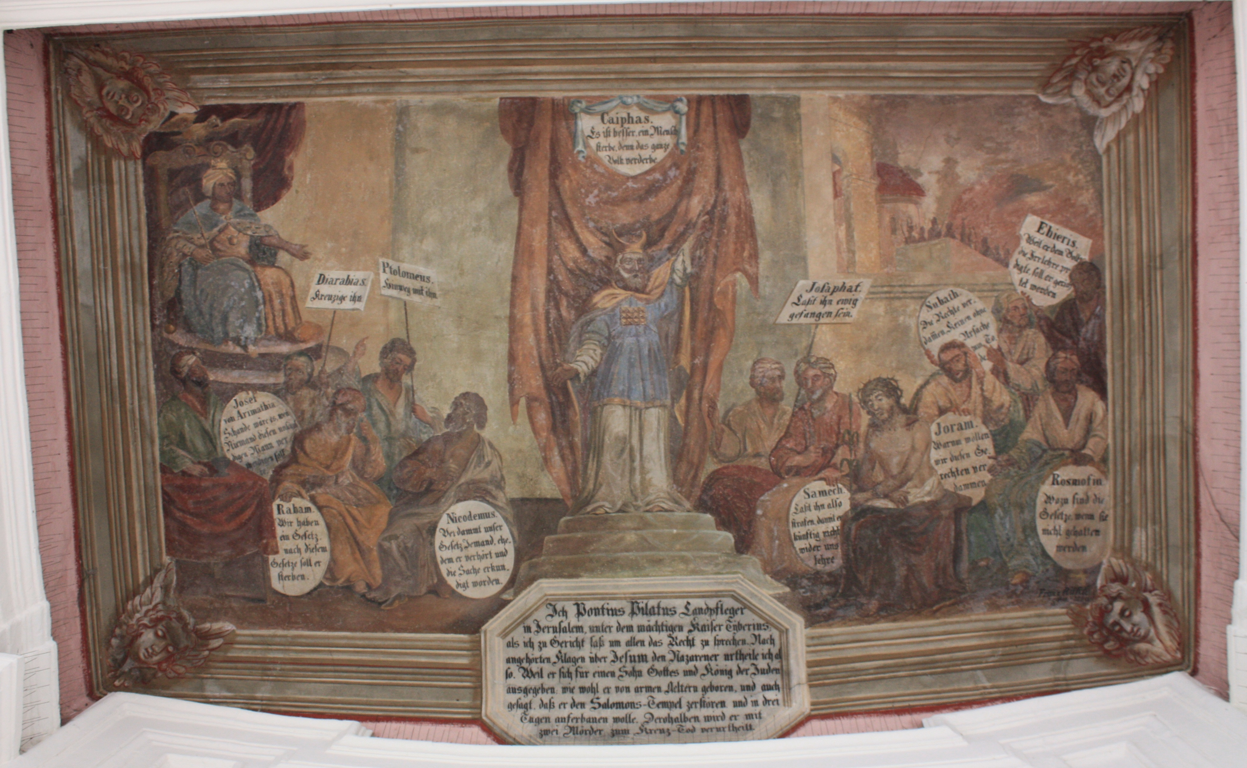 Parish church Holy cross - painting: Jesus before Pontius Pilatus Street:Ossiacher Zeile Community:Villach